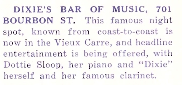 "This Week in New Orleans" for 4 December, 1948. Crop from page 8; blurb for Dixie's Bar of Music.